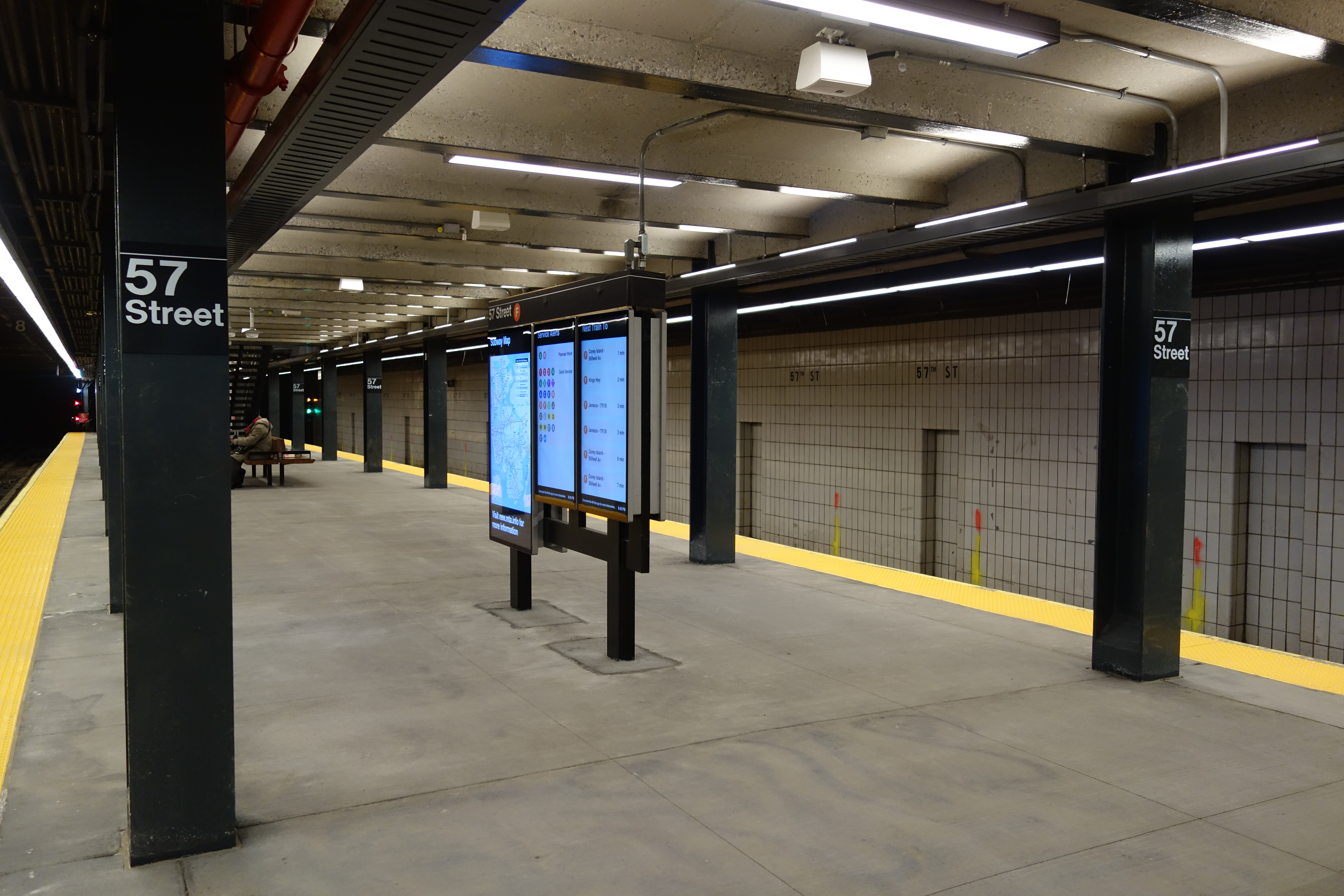 The reopened 57th Street station of the IND Sixth Avenue Line in Midtown Manhattan. The station was reopened almost randomly this evening, after five months of renovations under the MTA's Enhanced Station Initiative.